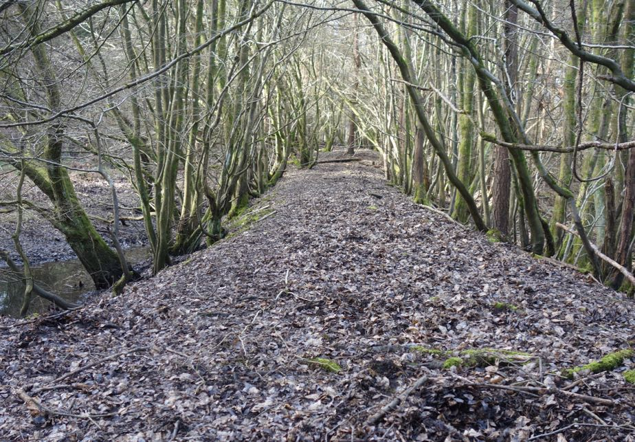 Trackbed of the 1812 Churchway branch of the Severn & Wye Railway, never converted to a railway. (SO634152)